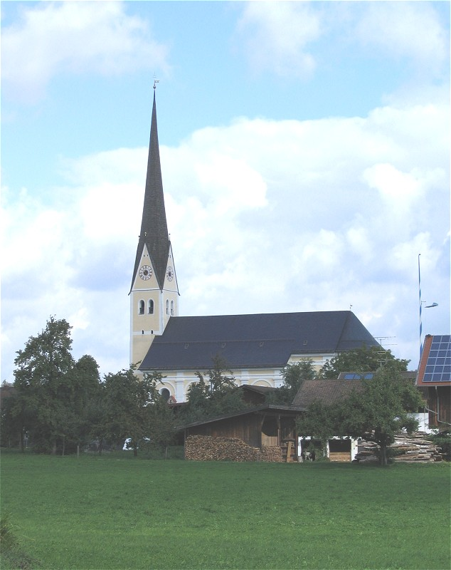 Au bei Bad Aibling, view of St Martin's Parish Church from south.